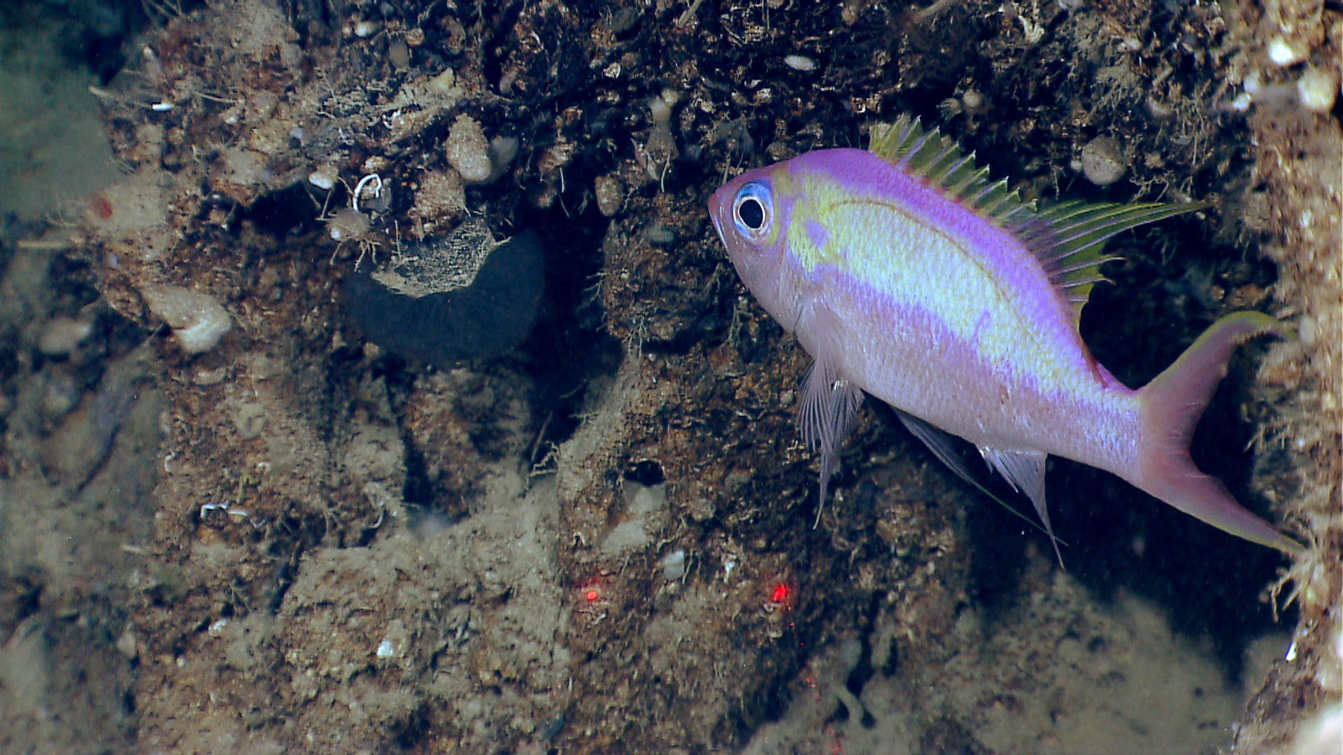 Deep sea fish -swallowtail bass (Anthias woodsi) Image ID: expl7091, Voyage To Inner Space - Exploring the Seas With NOAA Collect Location: Gulf of Mexico, North Credit: NOAA Okeanos Explorer Program, Gulf of Mexico 2012 Expedition